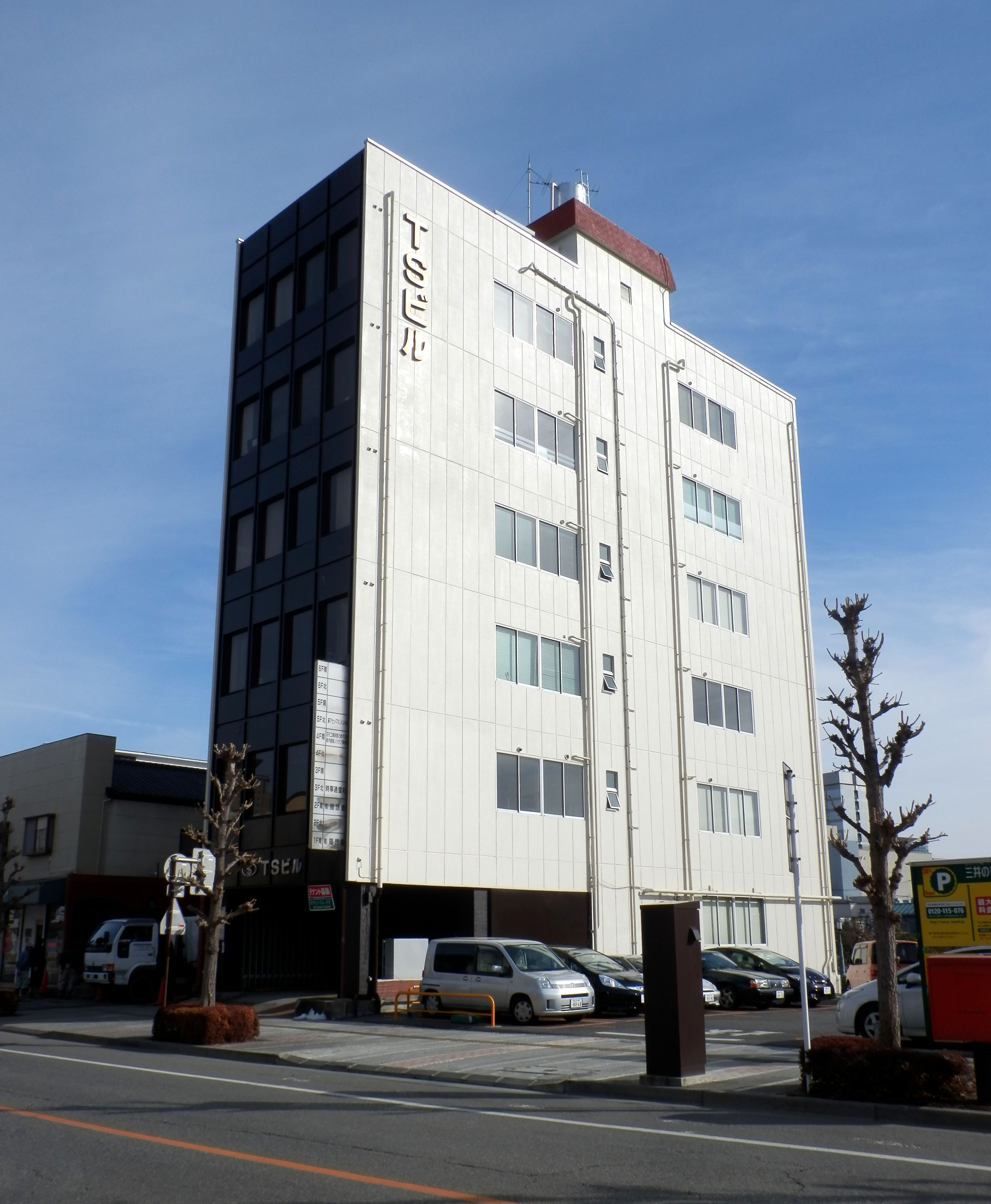 TS building (Office building in Utsunomiya, Japan)